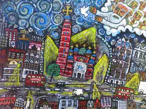 Author is Brian Whelan.